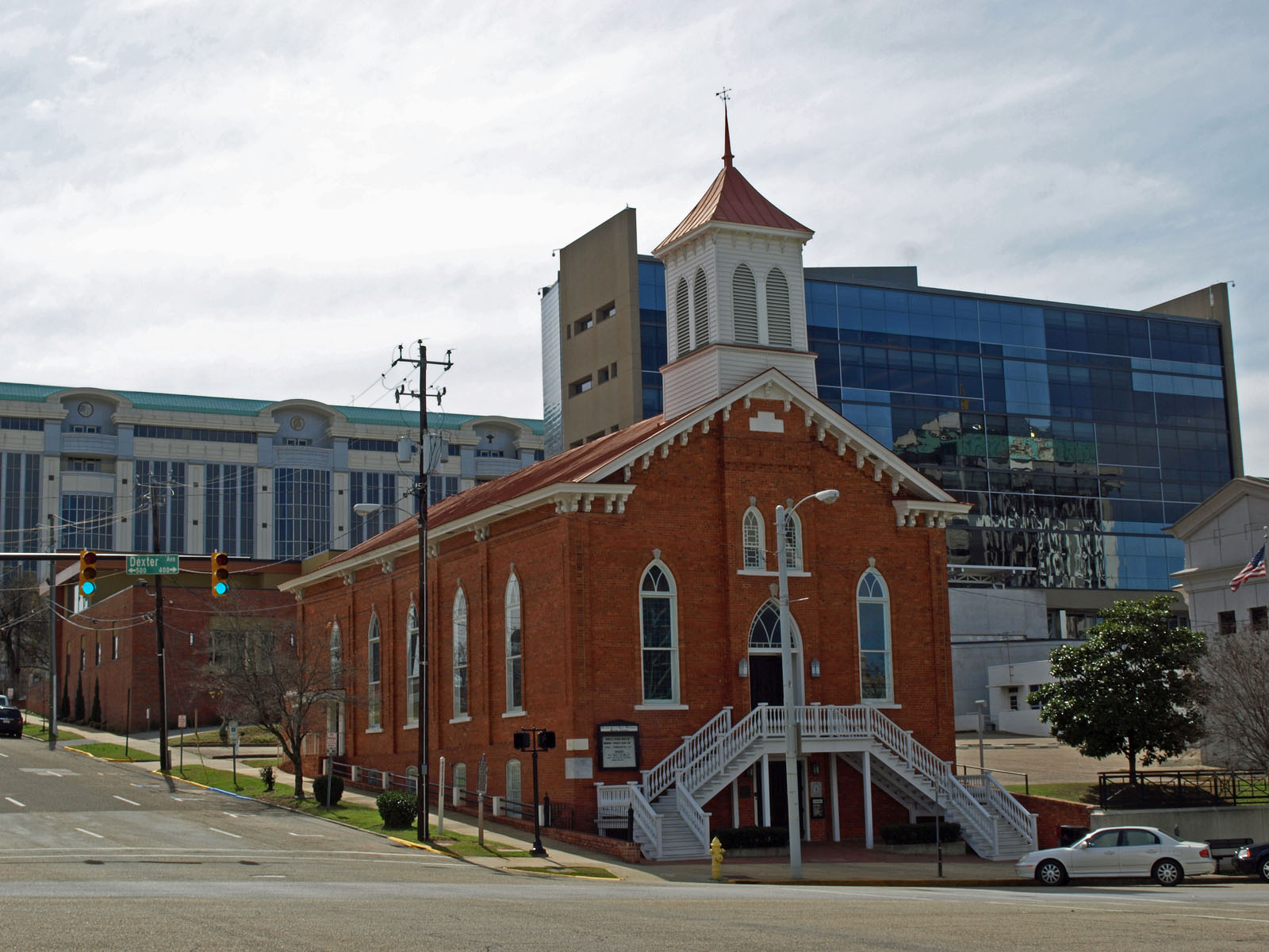 Dexter Avenue Baptist Church in Montgomery, Alabama. The Southern Poverty Law Center headquarters is in the background right.